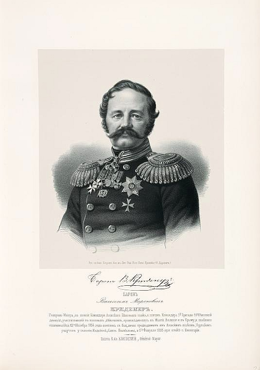 Major General Vilgelm Mironovich Kridener